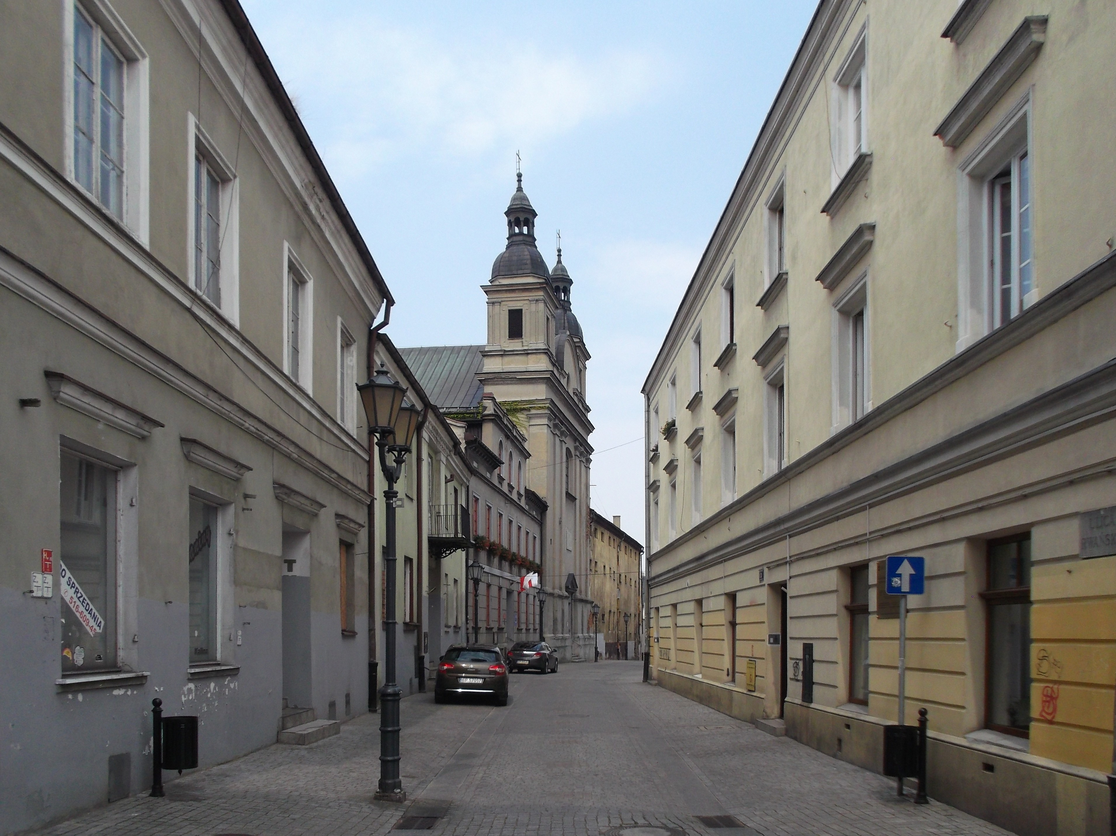 Rwanska Street in Piotrków Trybunalski and Evangelical-Augsburg church.